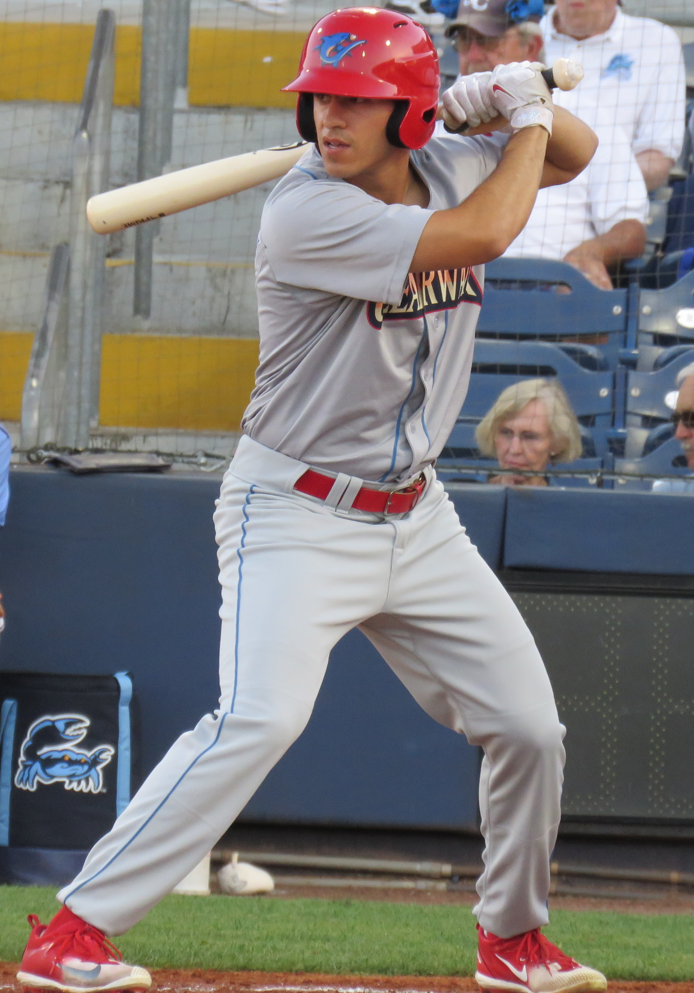 Adam Haseley batting for the Clearwater Threshers in 2018 (Photo by Bryan Green)